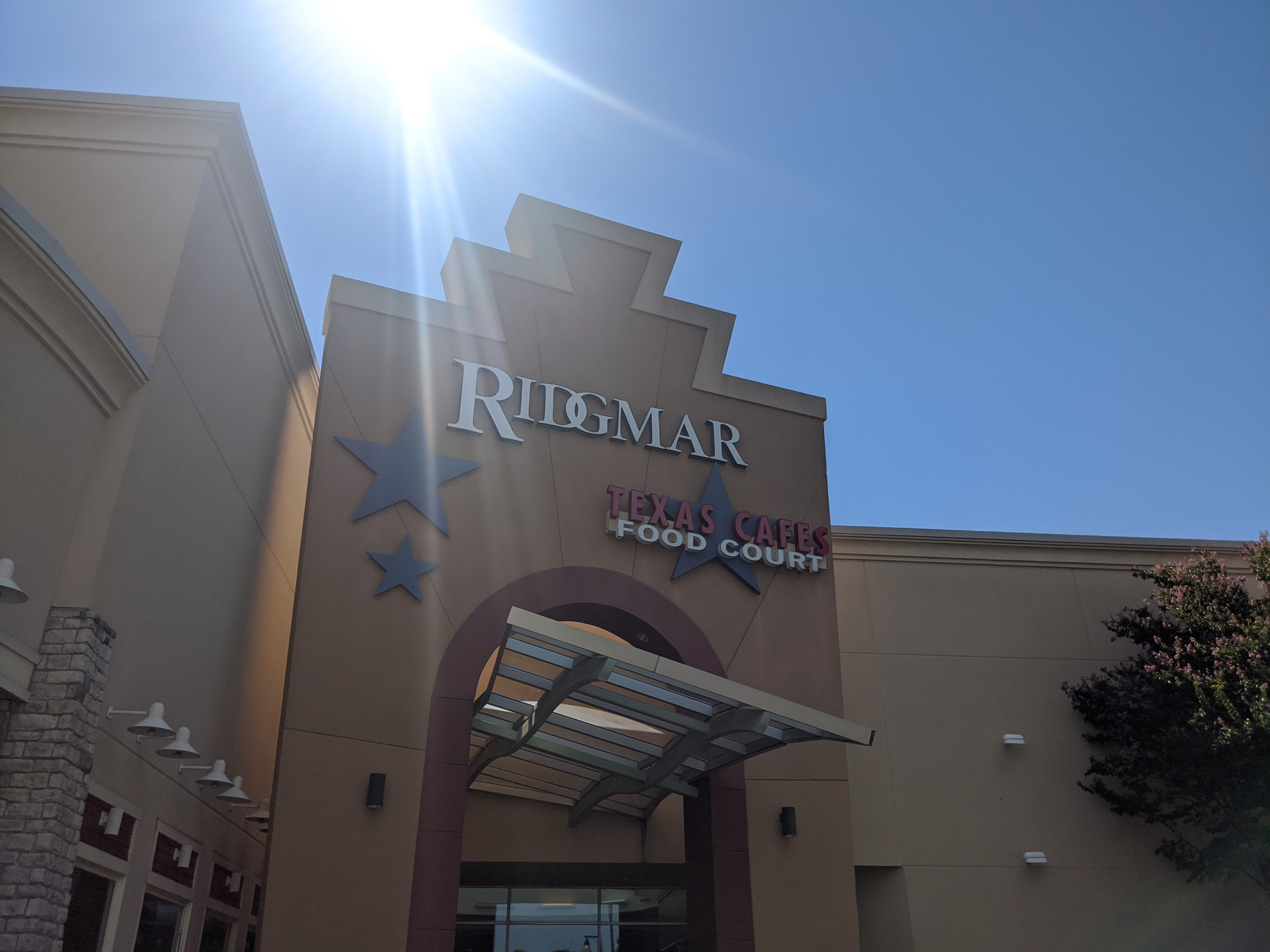 Food Court Entrance next to former chili's